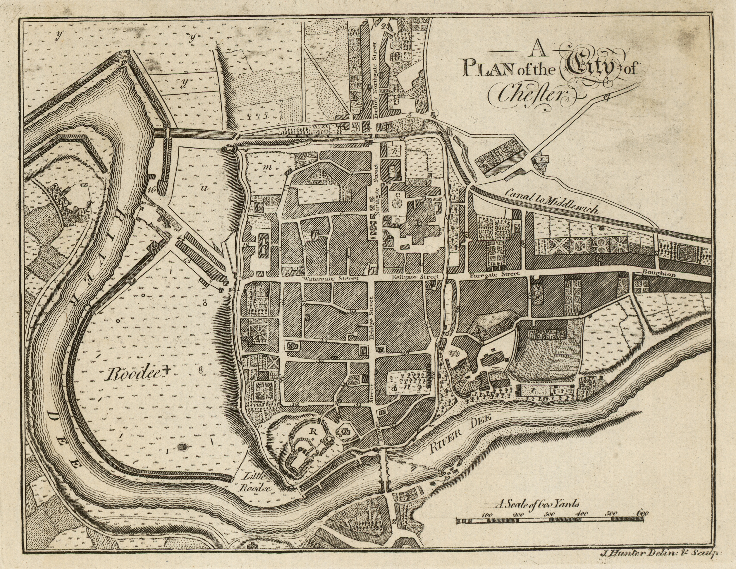 An image from a set of 8 extra-illustrated volumes of A tour in Wales by Thomas Pennant (1726-1798) that chronicle the three journeys he made through Wales between 1773 and 1776. These volumes are unique because they were compiled for Pennant's own library at Downing. This edition was produced in 1781. The volumes include a number of original drawings by Moses Griffiths, Ingleby and other well known artists of the period. Thomas Pennant (1726-1798)